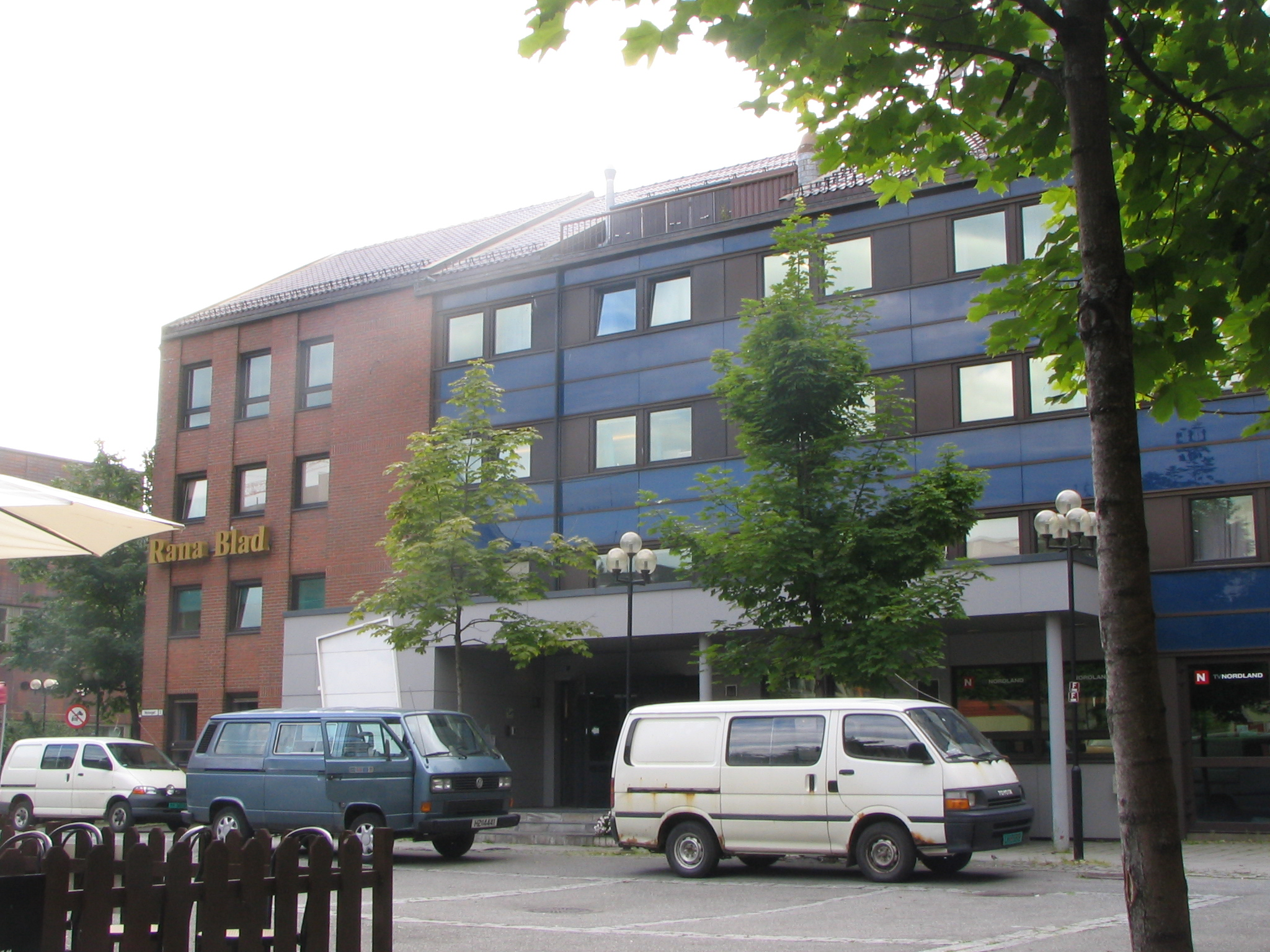 Mo i Rana, Rana Blad-bygningen. Mo i Rana, Nordland, the building for the local newspaper Rana Blad.